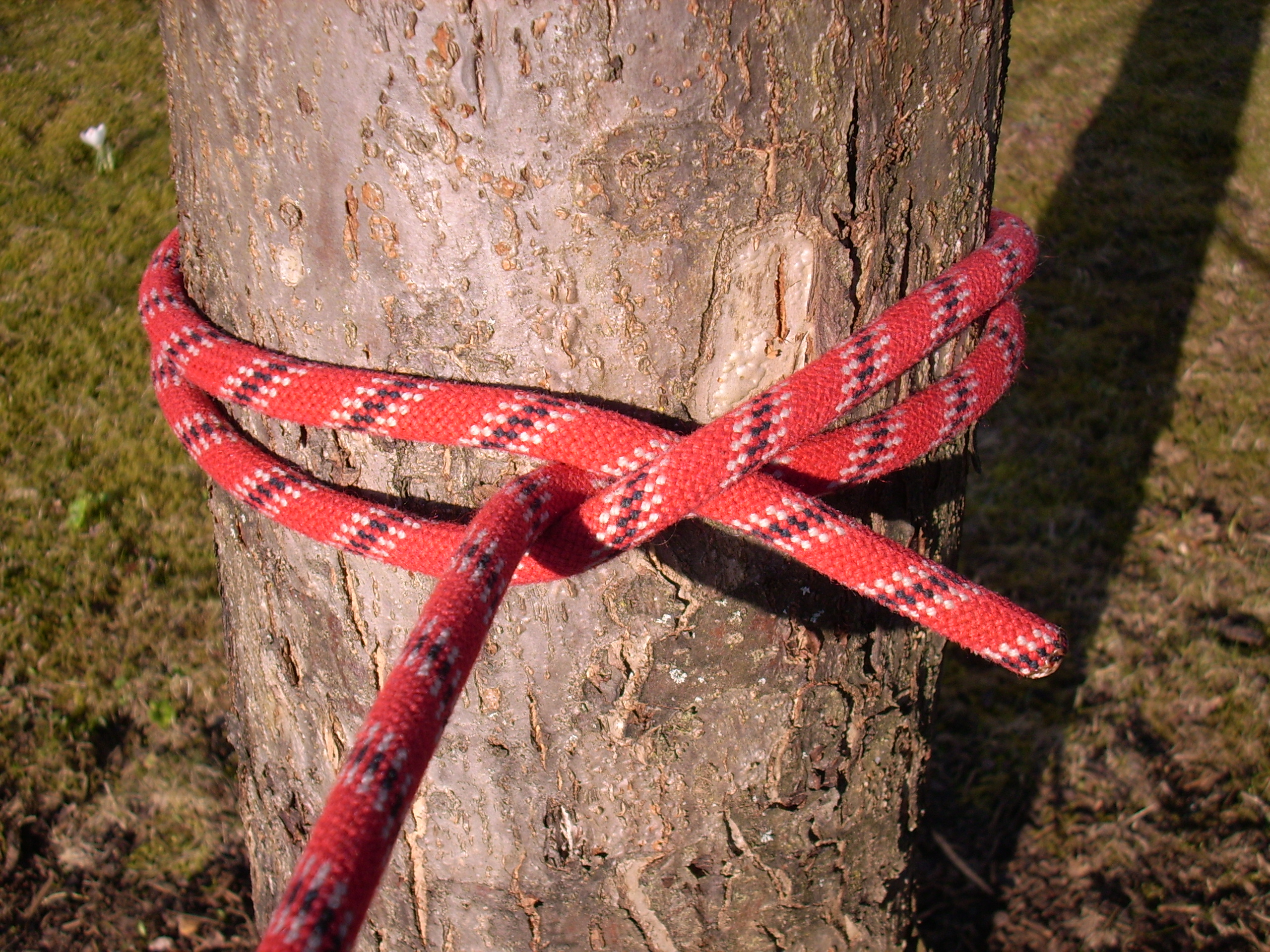 Clove hitch